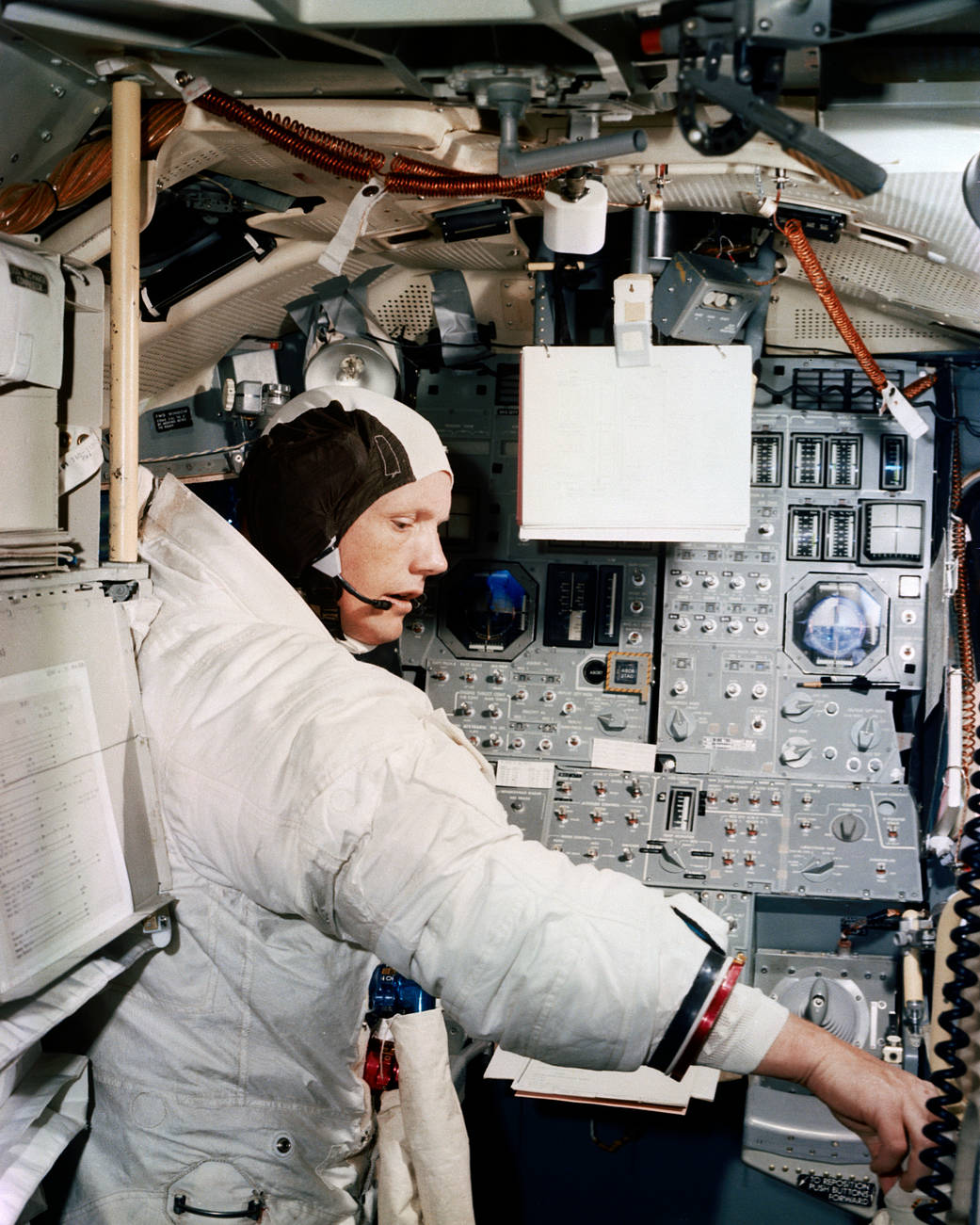 Armstrong trains in the lunar module simulator at Kennedy Space Center on June 19, 1969.